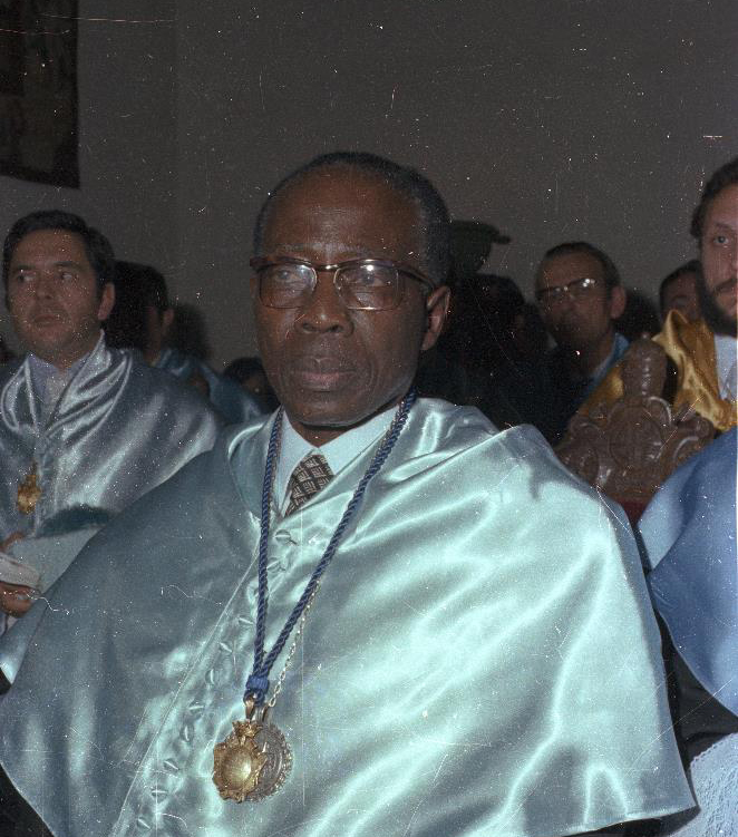 Léopold Sédar Senghor receiving a degree honoris causa from the University of Salamanca